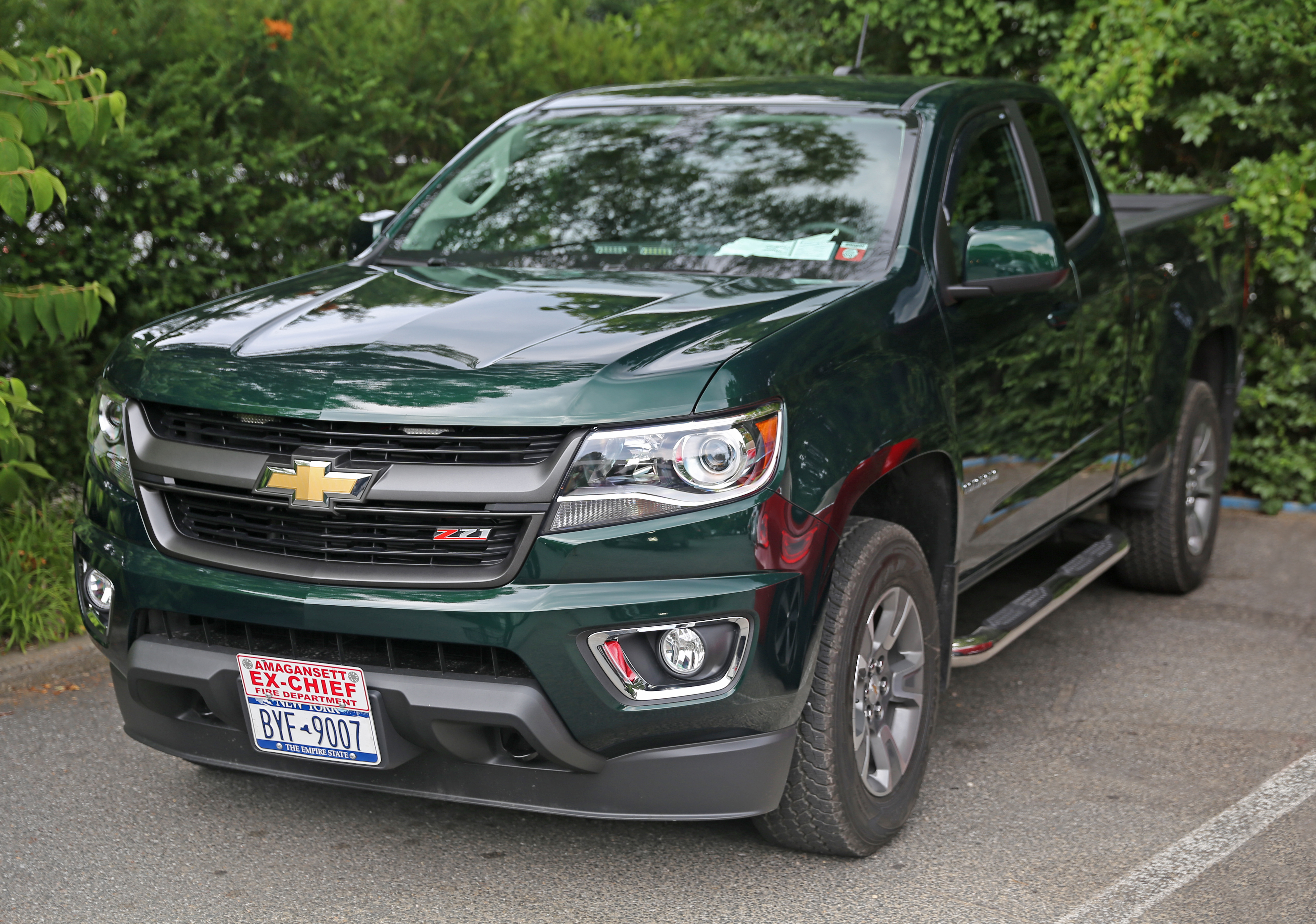 A 2015 Chevrolet Colorado Z71 Extended Cab 4WD. 3.6-liter inline-six (LFX), assembled in Wentzville, MO.